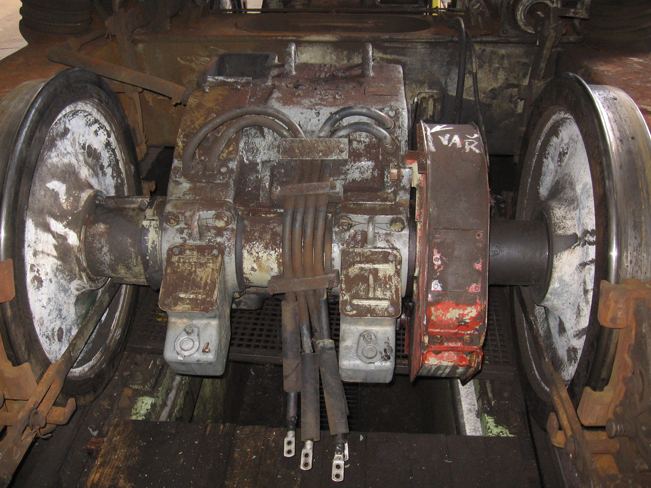 Wheelset with traction motor of 742 207